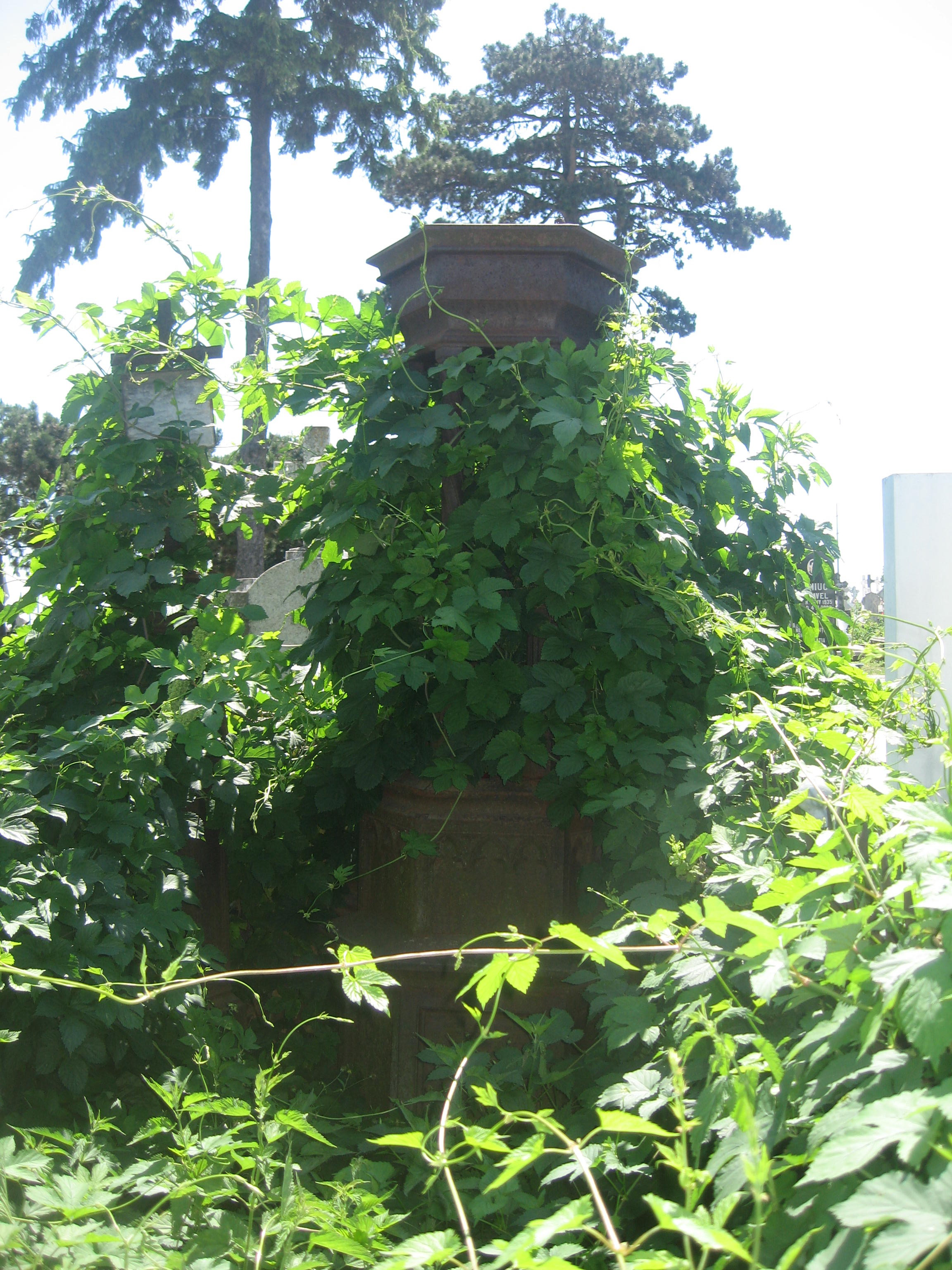 Pacea Cemetery in Suceava - Tomb of George Cantacuzino.